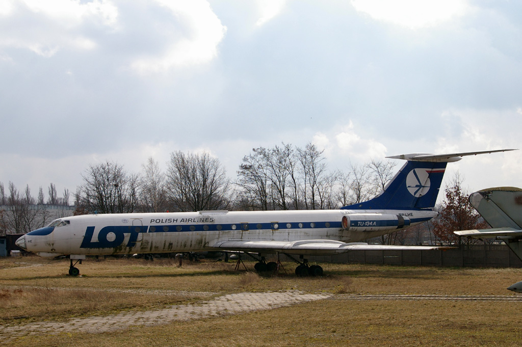 The Tupolev Tu-134A of LOT registered SP-LHE, displayed to the aircraft museum in Łódź.